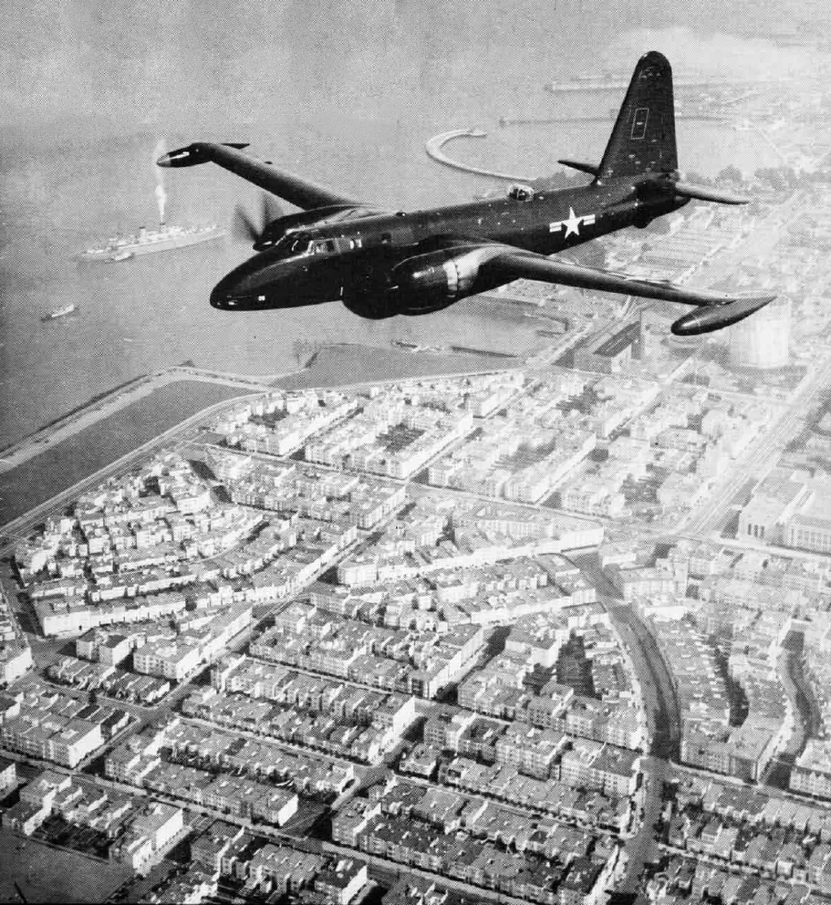 A U.S. Navy Lockheed P2V-4 Neptune in flight over San Francisco, California (USA), in 1950.